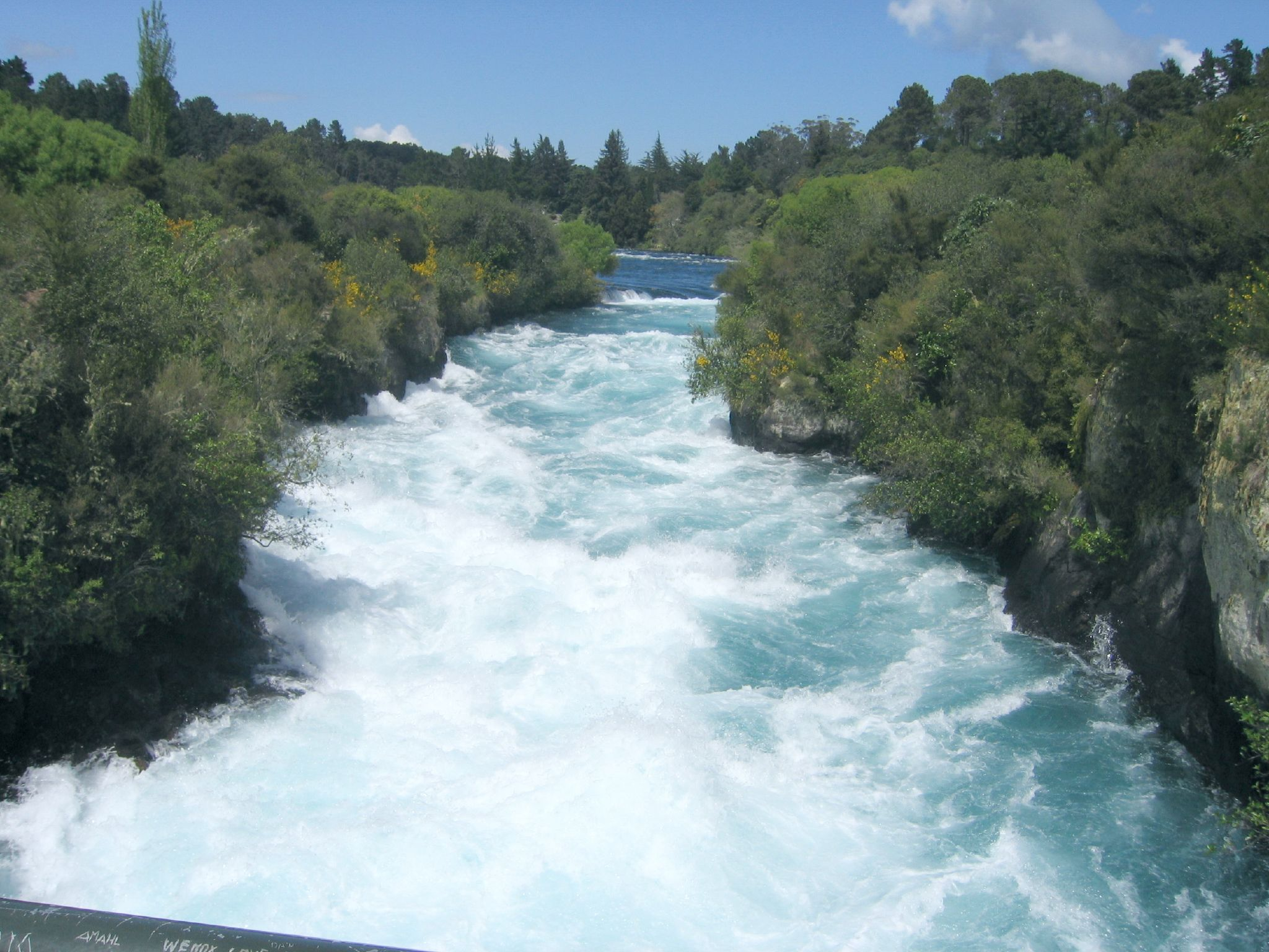 The Huka Falls are a set of waterfalls on the Waikato River that drains Lake Taupo in New Zealand.